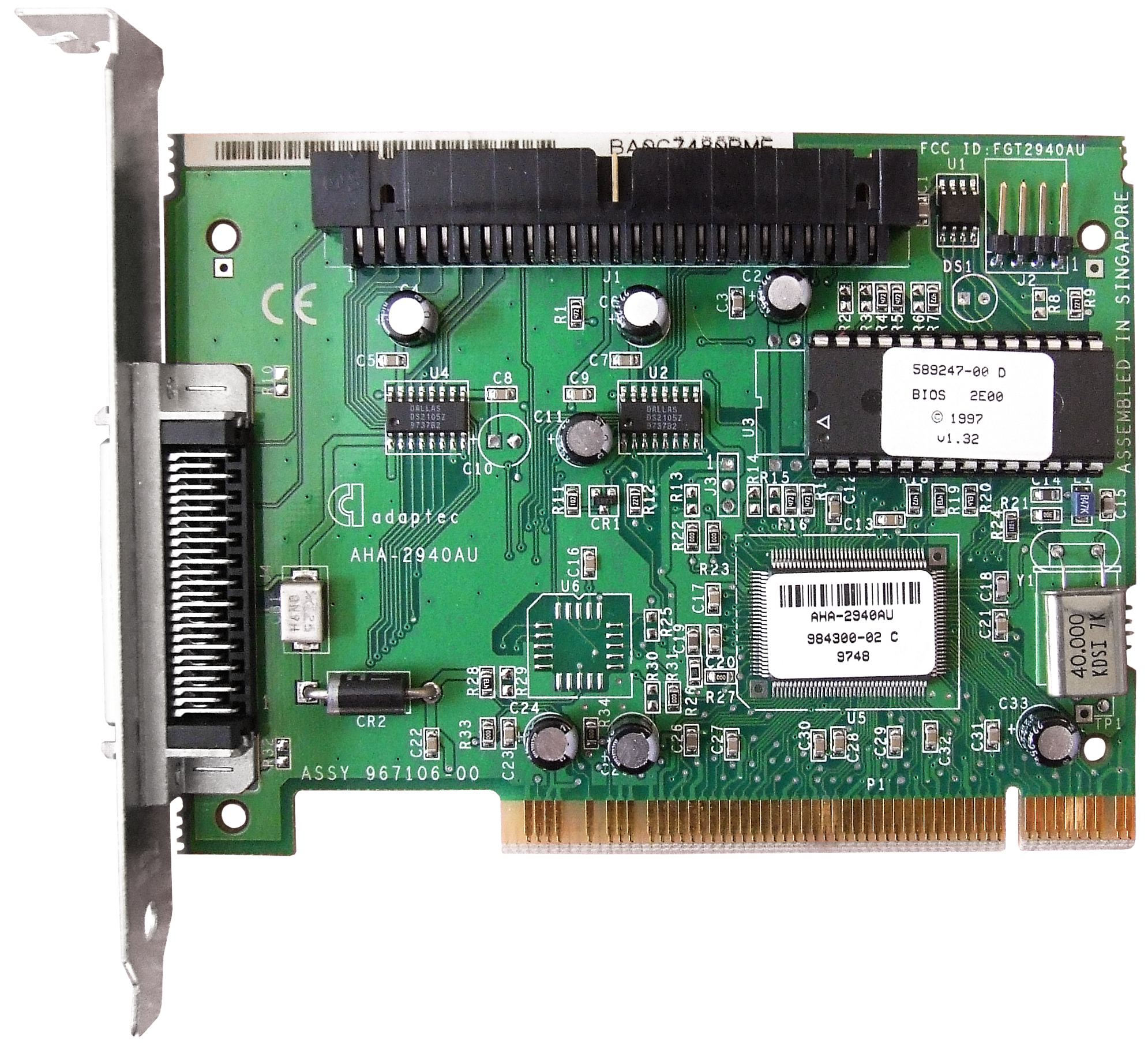 Adaptec AHA-2940AU Ultra SCSI host adapter. It is equipped with an 50 pin connector for internal drives as well as a HPDB50 port for external devices.